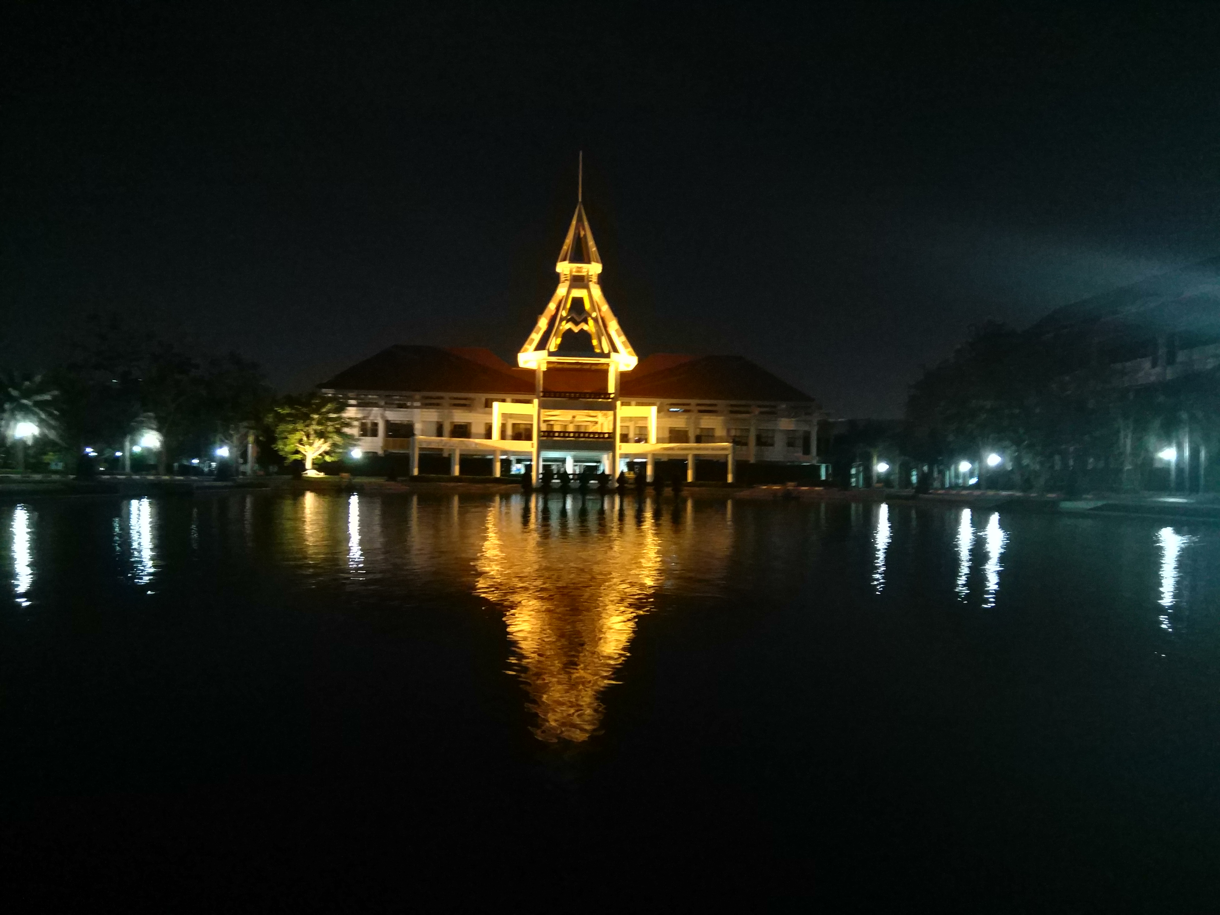 Thammasat University pond view 2